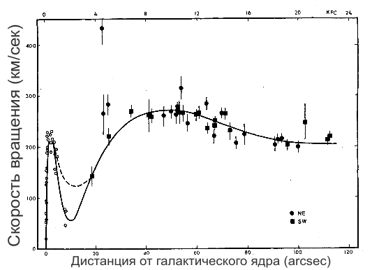 The rotation curve of Andromeda Galaxy